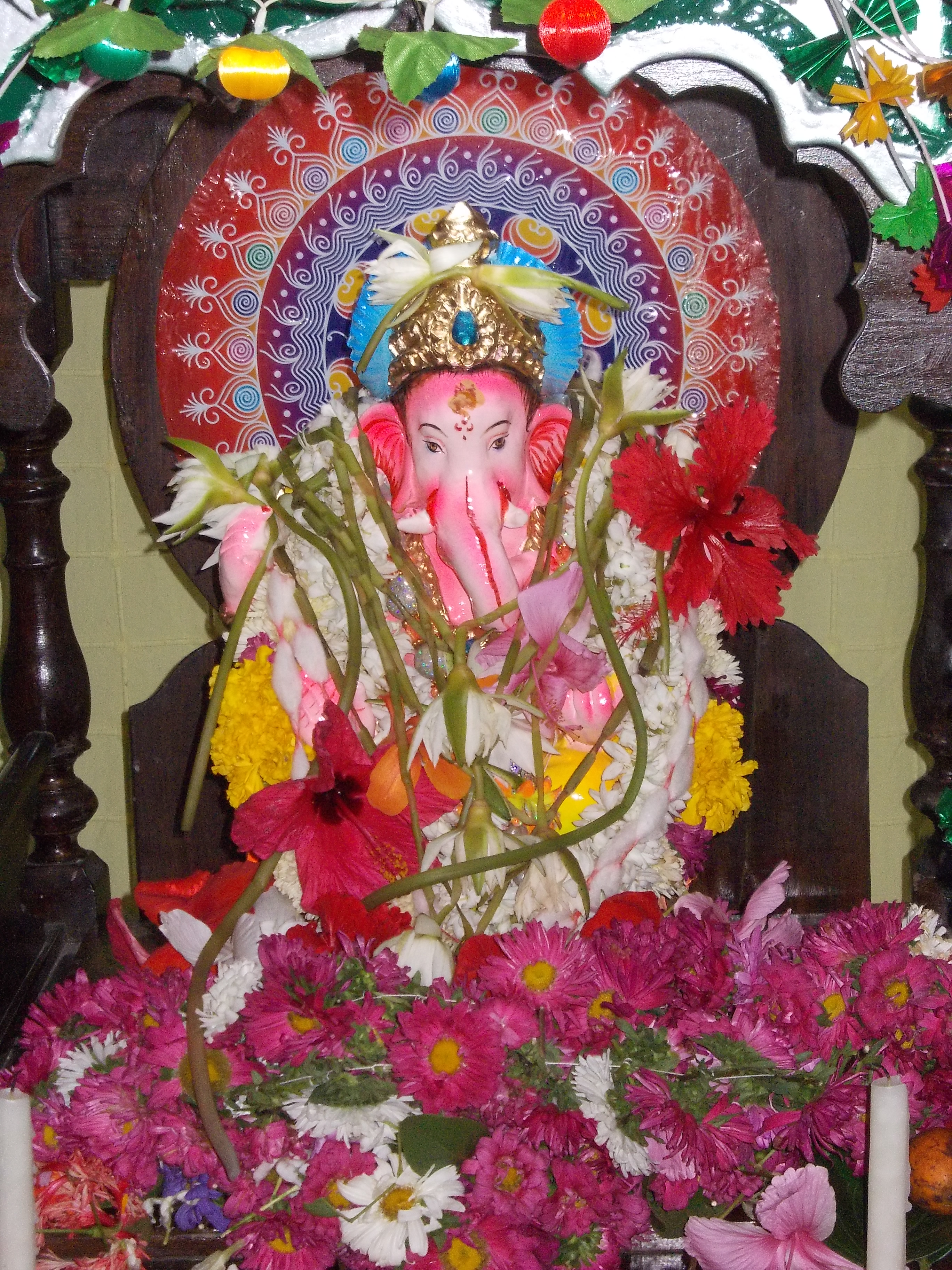 Ganesh Chaturthi celebrations in Goa at my residence. Note the use of lotus flowers to worship the deity.